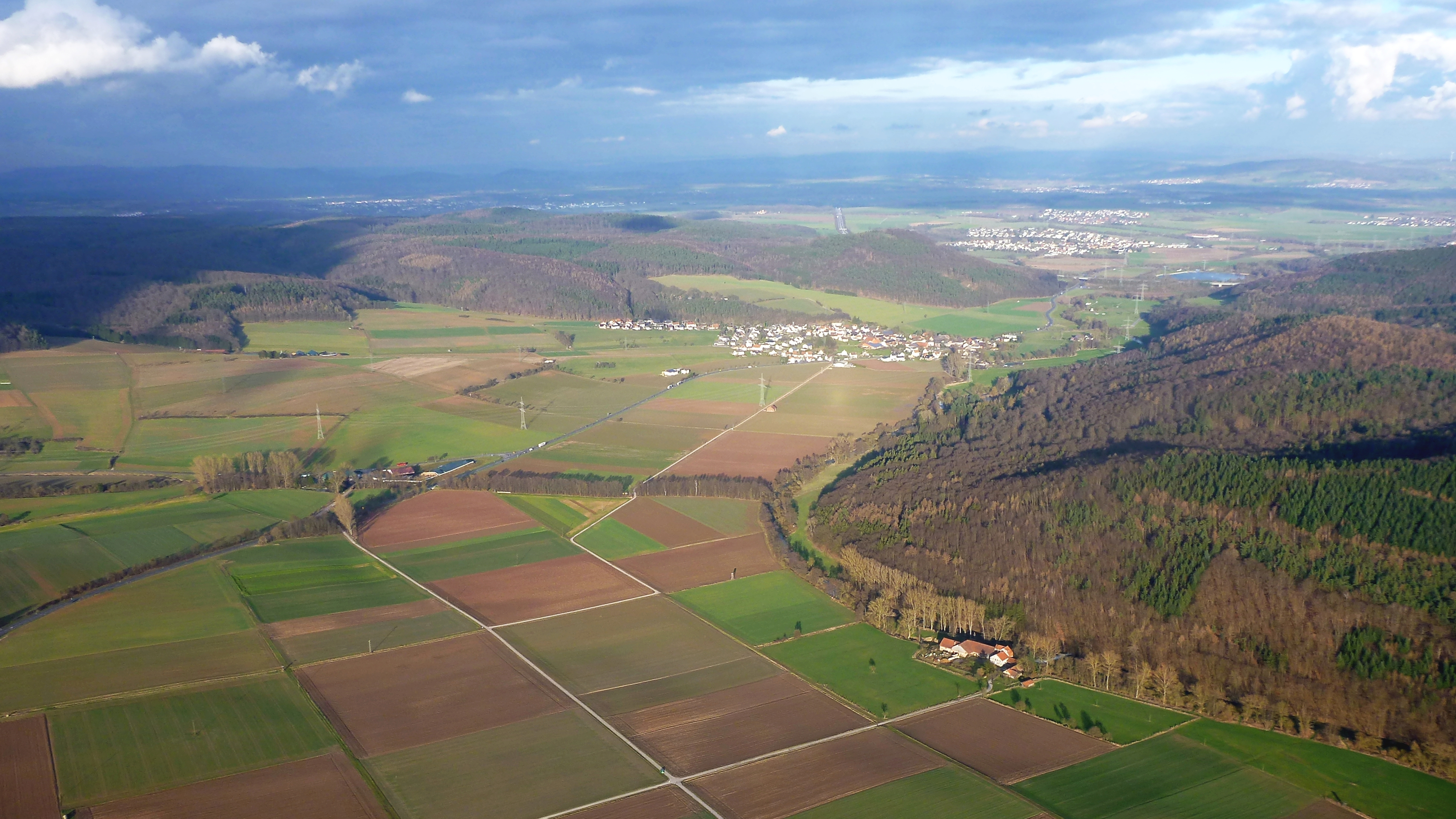 Schwalmpforte (center right) and Kerstenhausen (center), Schwalm-Eder-Kreis, Hesse, Germany